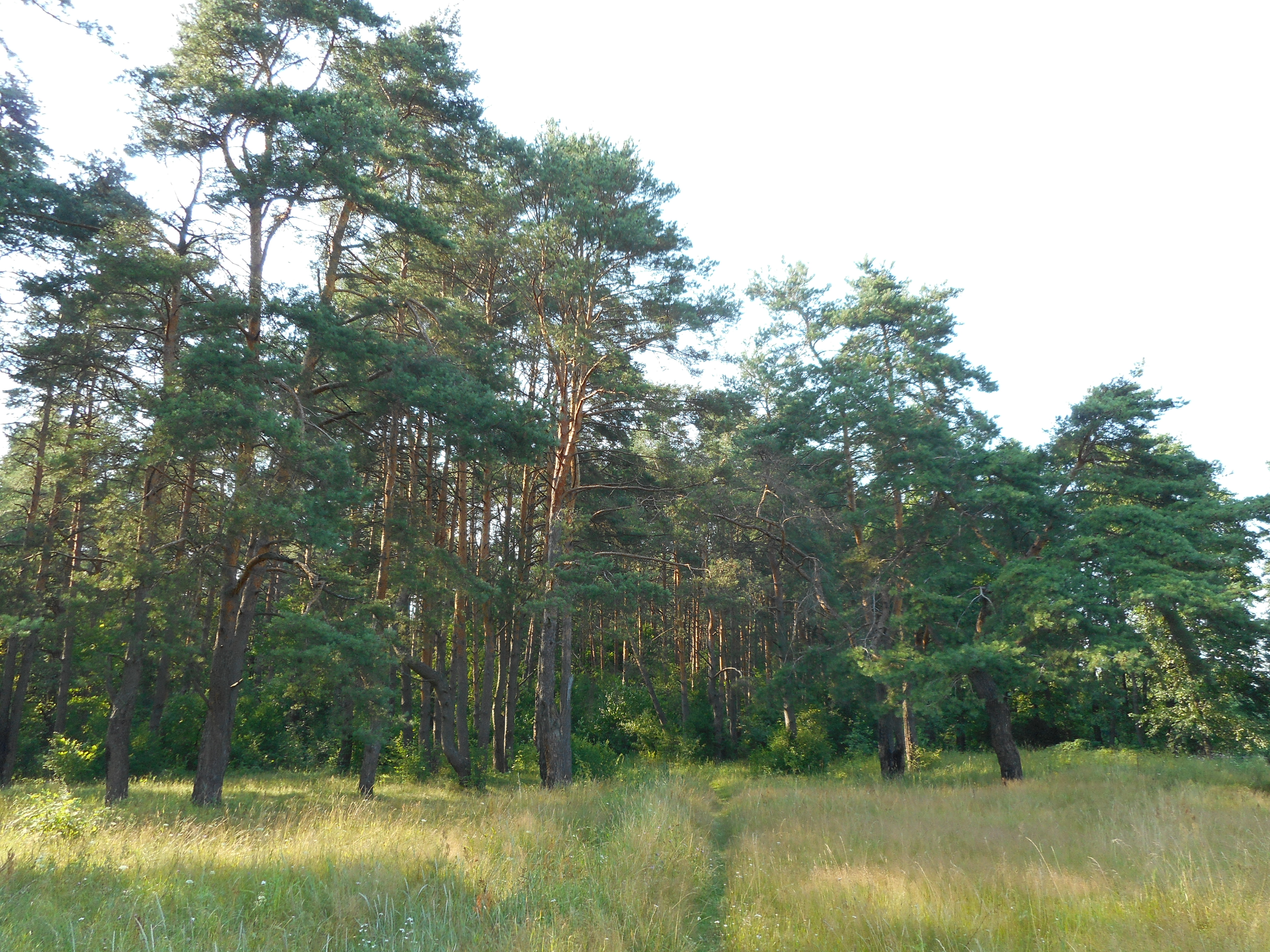 Kaluga Pine Forest (near the river Yachenka)